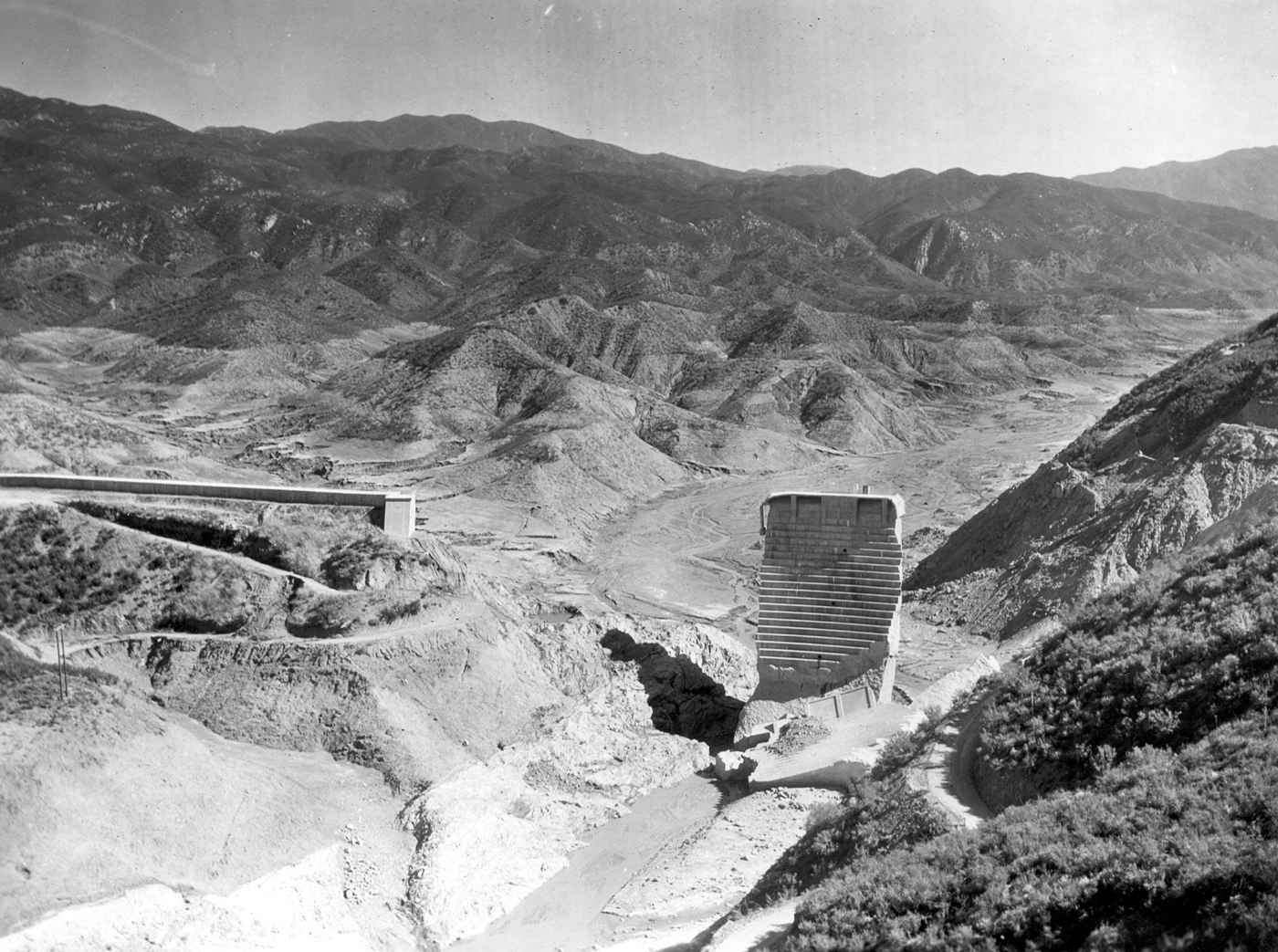 St. Francis Dam Flood March 12-13, 1928, Los Angeles County, California. Taken from the same location as photo sht00664, showing the remains of the dam and reservoir floor. The dam failed at 11:58:30 p.m. Monday March 12, 1928. The left (west) abutment of the dam was entirely swept away and the inactive San Francisquito Fault is clearly visible, being located along the contact zone of schist and conglomerate.